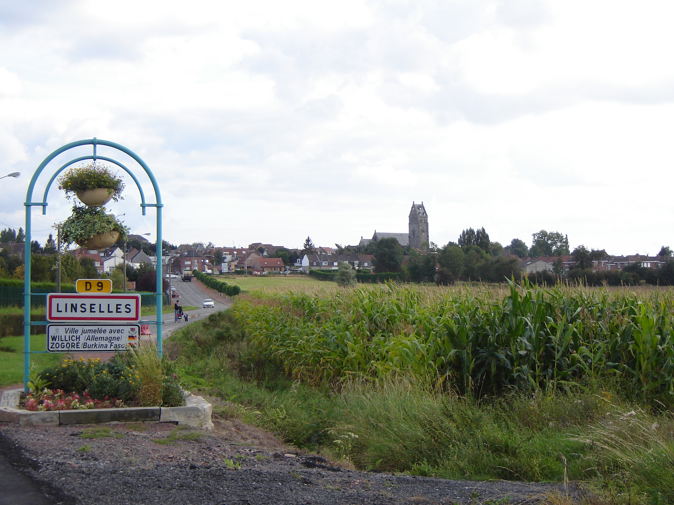 View on Linselles (seen from the Rue de Bousbecque D64). Linselles, Nord, Nord-Pas-de-Calais, France